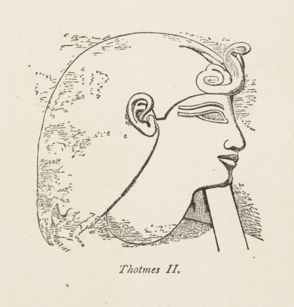 A simple portrait of Thotmes wearing a head dress.